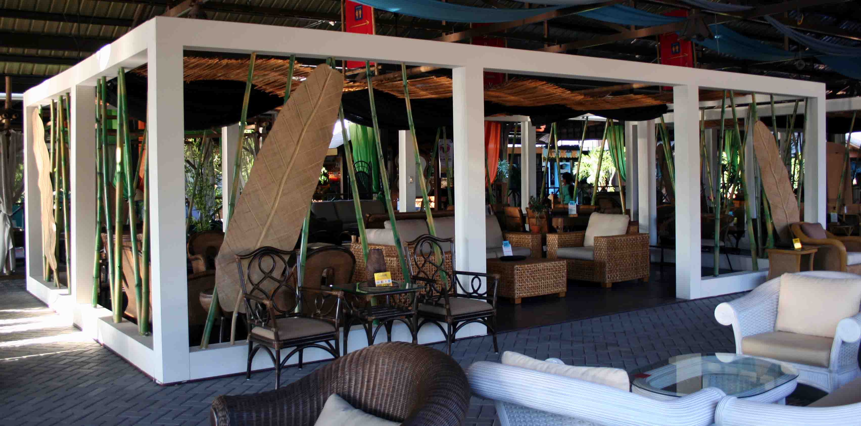 Picture of Furniture Village in Tiendesitas